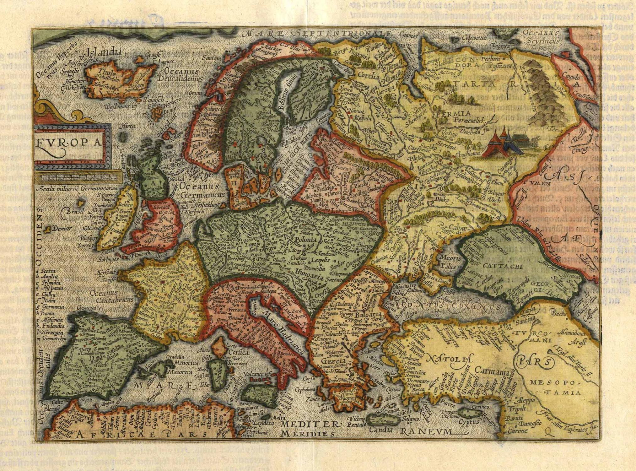 Political map of Europe by Matthias Quad (cartographer)